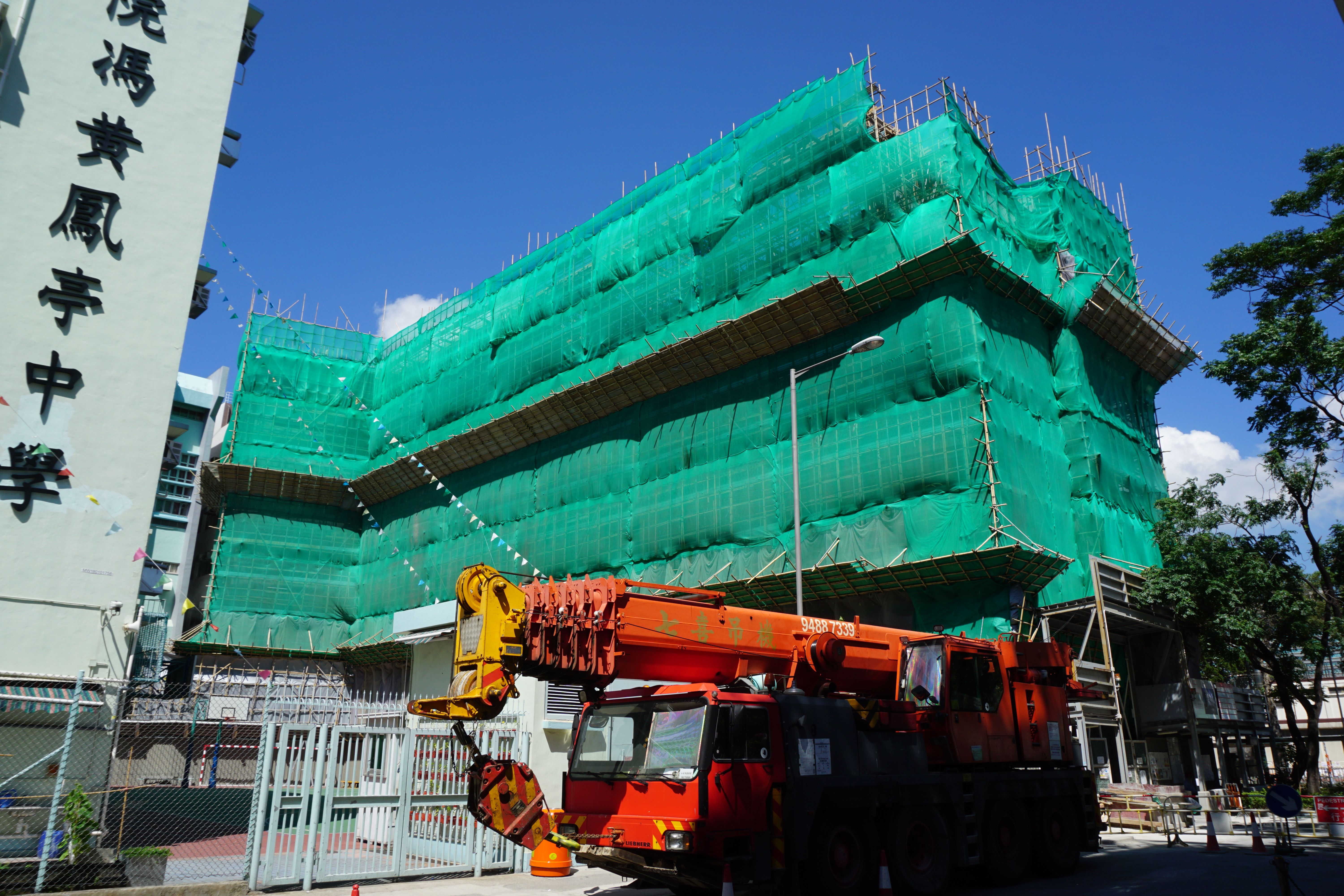 Baptist Lui Ming Choi Secondary School in Shatin, Hong Kong.